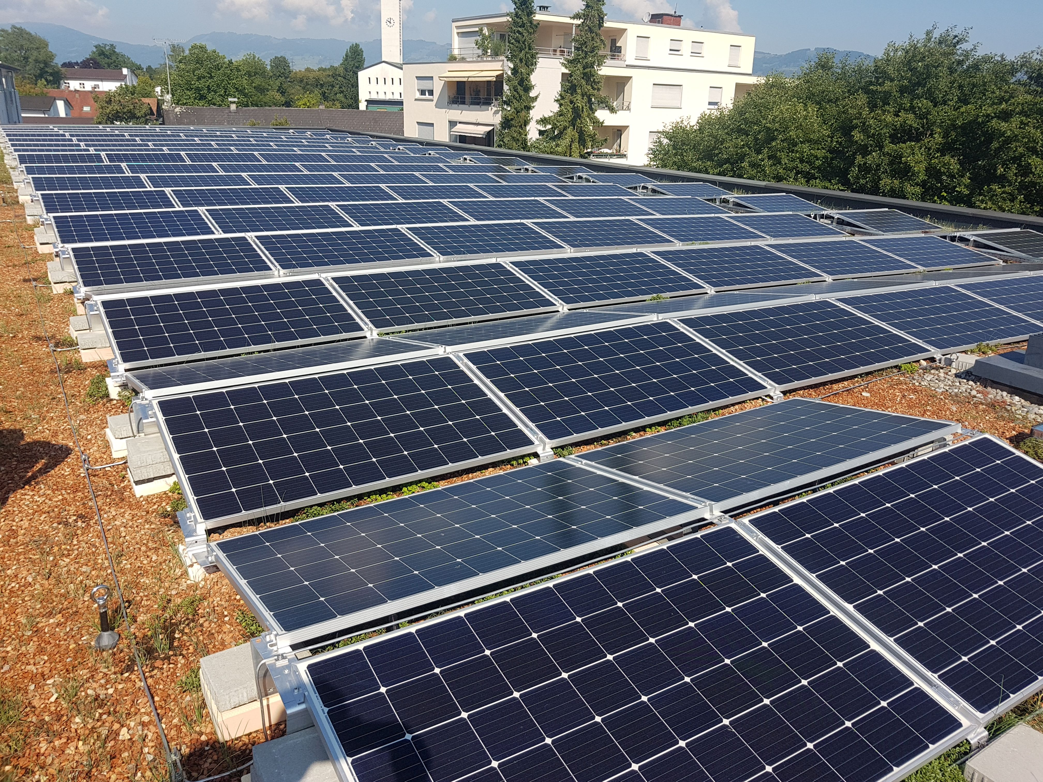 Photovoltaic system at the roof of the event center KOM in Altach, Vorarlberg, Austria.